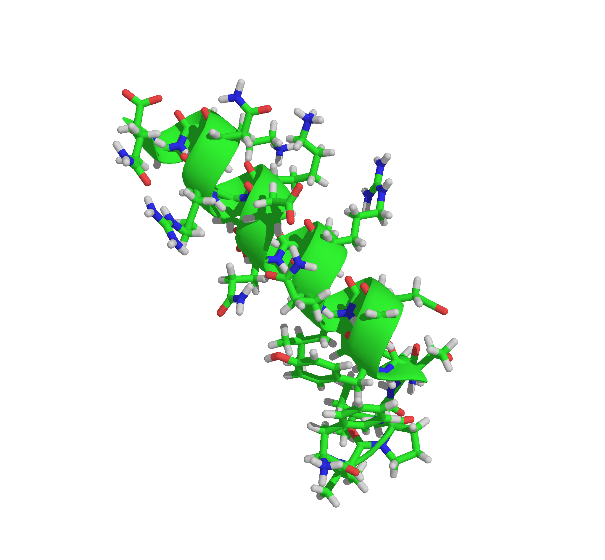 3D structure of motilin, from PDB 1LBJ data. Ref: Andersson A, Mäler L (October 2002). "NMR solution structure and dynamics of motilin in isotropic phospholipid bicellar solution". J. Biomol. NMR 24 (2): 103–12. PMID 12495026.